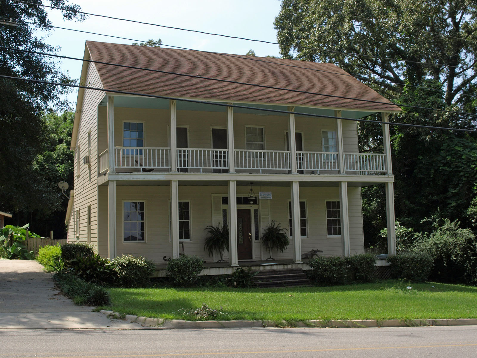 "The Texas" (also known as the Dryer House and the Brunell House) in Daphne, Alabama; listed on the National Register of Historic Places